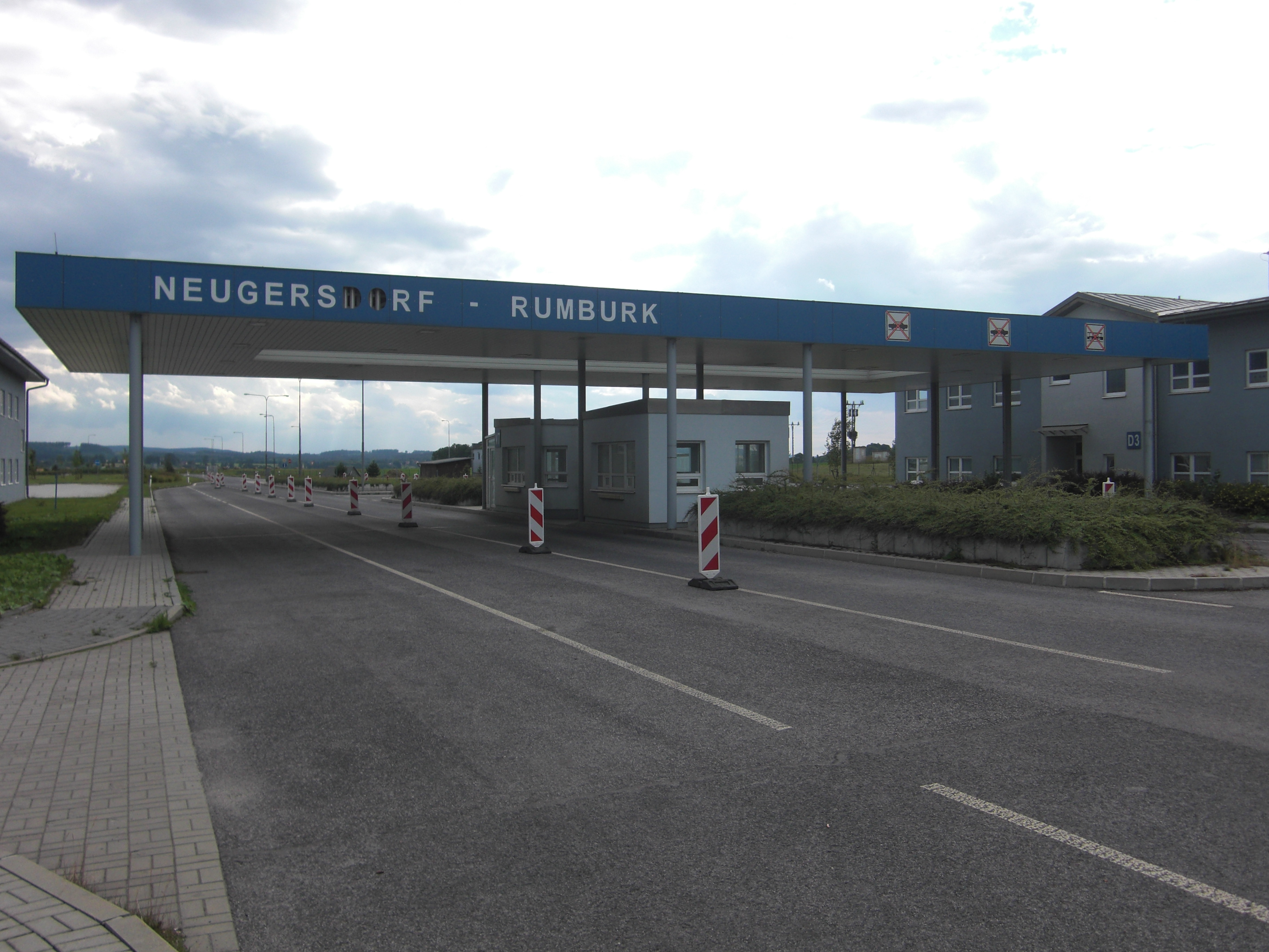 Border crossing